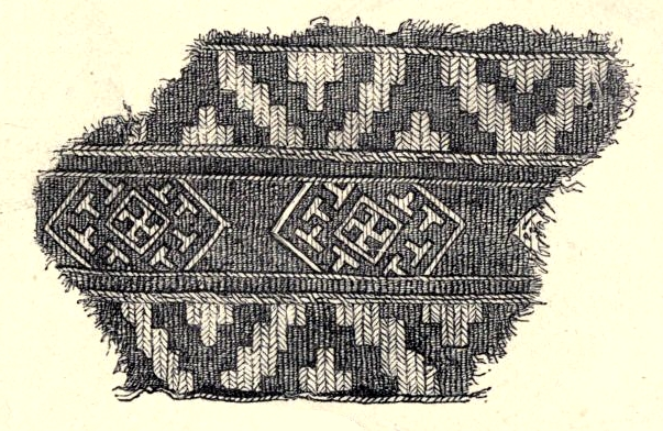 Drawing of a strip of Iron Age cloth found in Denmark. The source notes: "From a female grave near Randers, of the tenth century, were taken out pieces of woolen cloth, with gold and silver thread woven into it, and trimmed with red silk. The occurrence of the swatikas, or Thor's mark, surrounded by the sign of Thor's hammer, makes it not improbable that these stuffs were woven in the North itself."